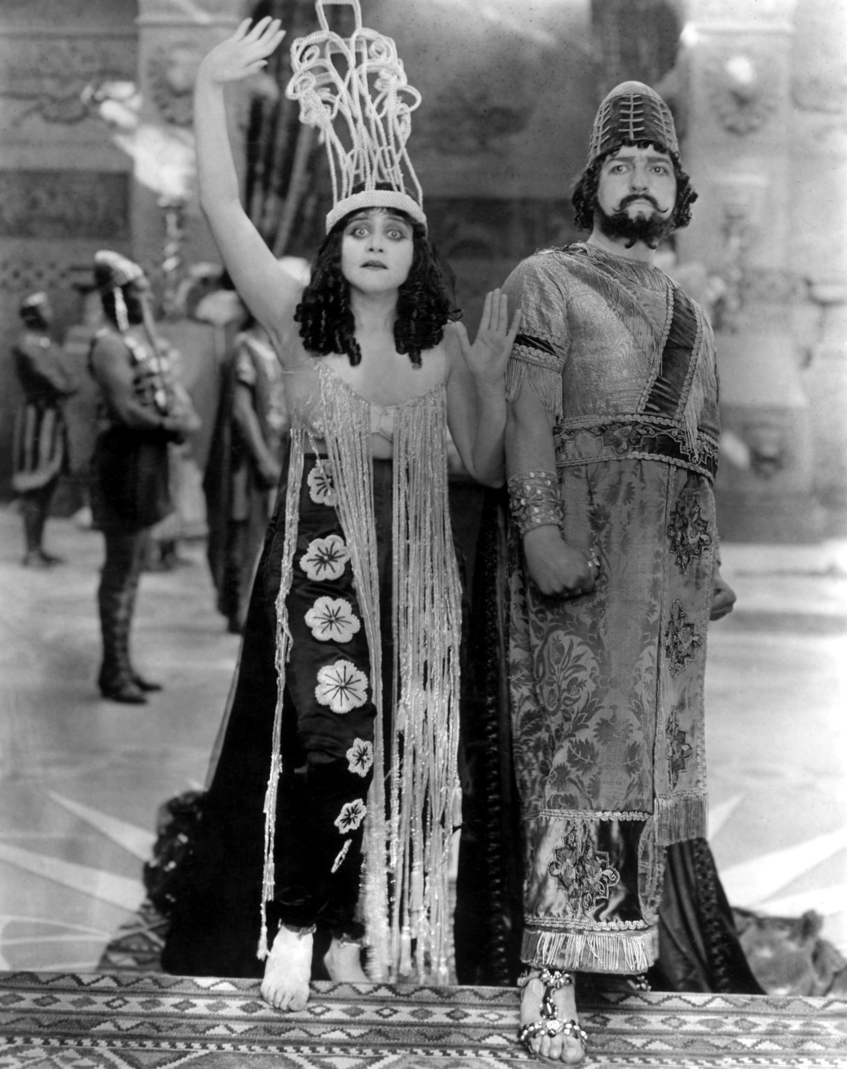 Theda Bara (Salome) & G. Raymond Nye (King Herod) in Salome - cropped screenshot